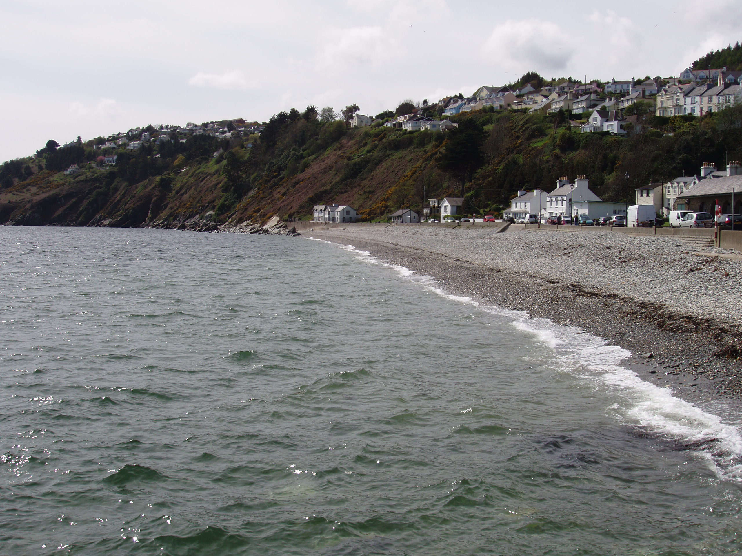 The promenade and beachfront of Laxey, Isle of Man along the Irish Sea. Old Laxey sits atop the ridge.